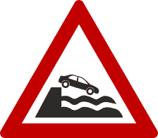 Diagram of road signs of Luxembourg